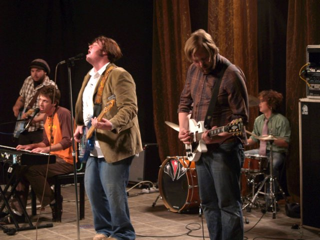 Photo taken and submitted by Phil Konstantin. I give my permission for this photo to be used by anyone.